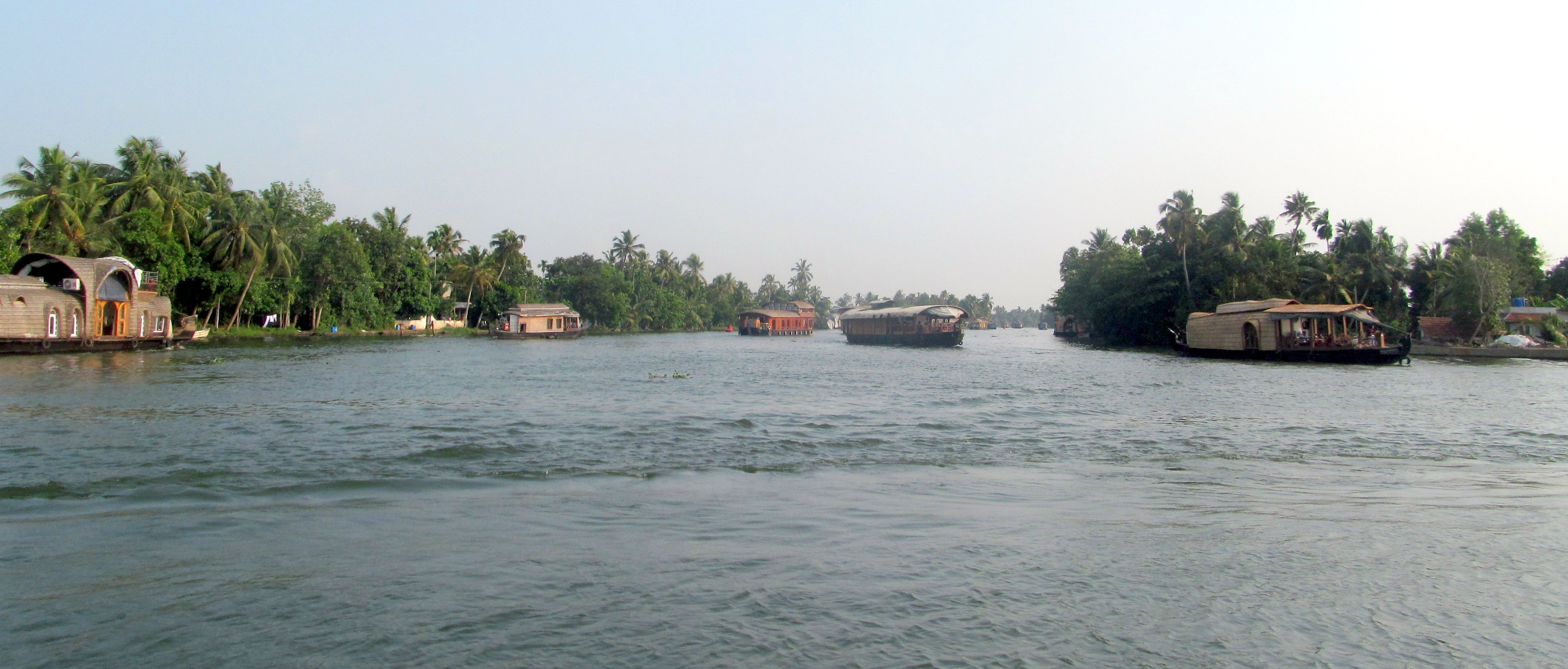 Vembanad Lake,Alleppey/Alapuzzha